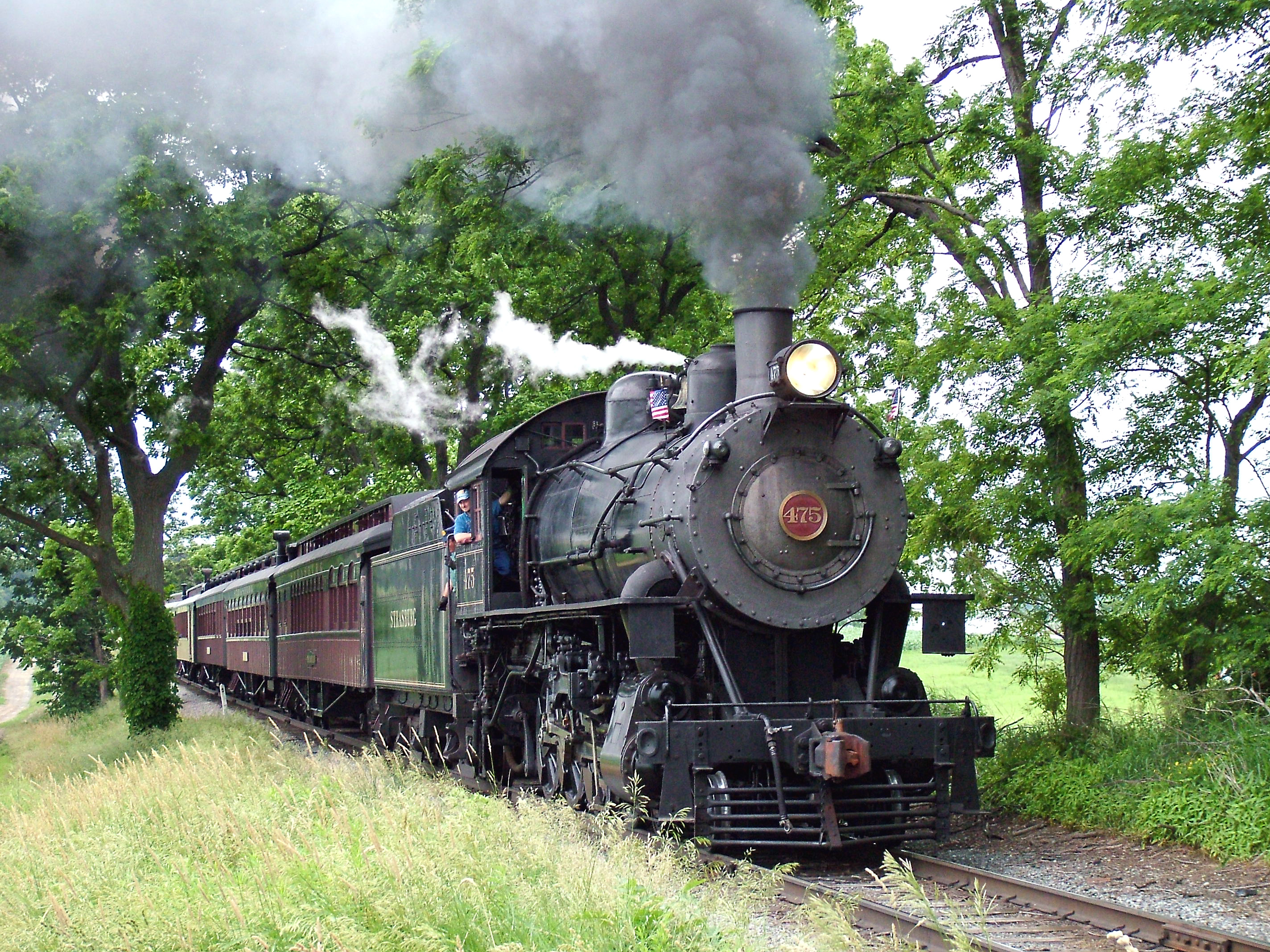 Strasburg Rail Road (2004) - obtained (9/27/2005) from Hope Banner - PR Director - Scheffey Integrated Marketing - 350 New Holland Ave. - Lancaster, PA 17602 - (717) 569-8274